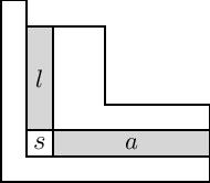 This depicts the arm and the leg of a square of a Young diagram. This is particularly relevant in the study of Macdonald polynomials, a type of symmetric function studied in algebraic combinatorics.